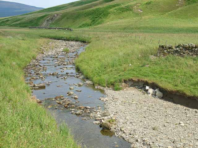 Upper reaches of the Liddel Water. Sheep seeking shade in the heatwave of July 2006